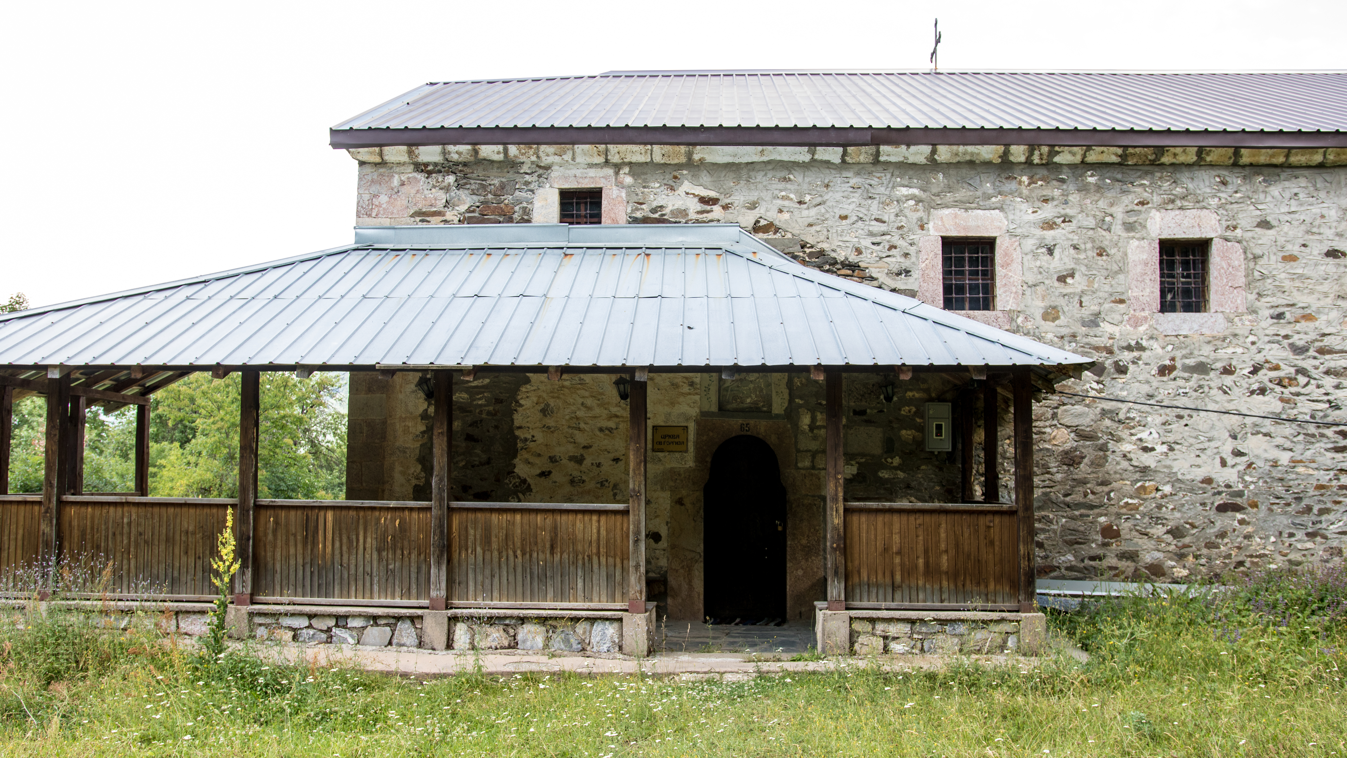 View of the St. George's Church, main church in the village Osoj